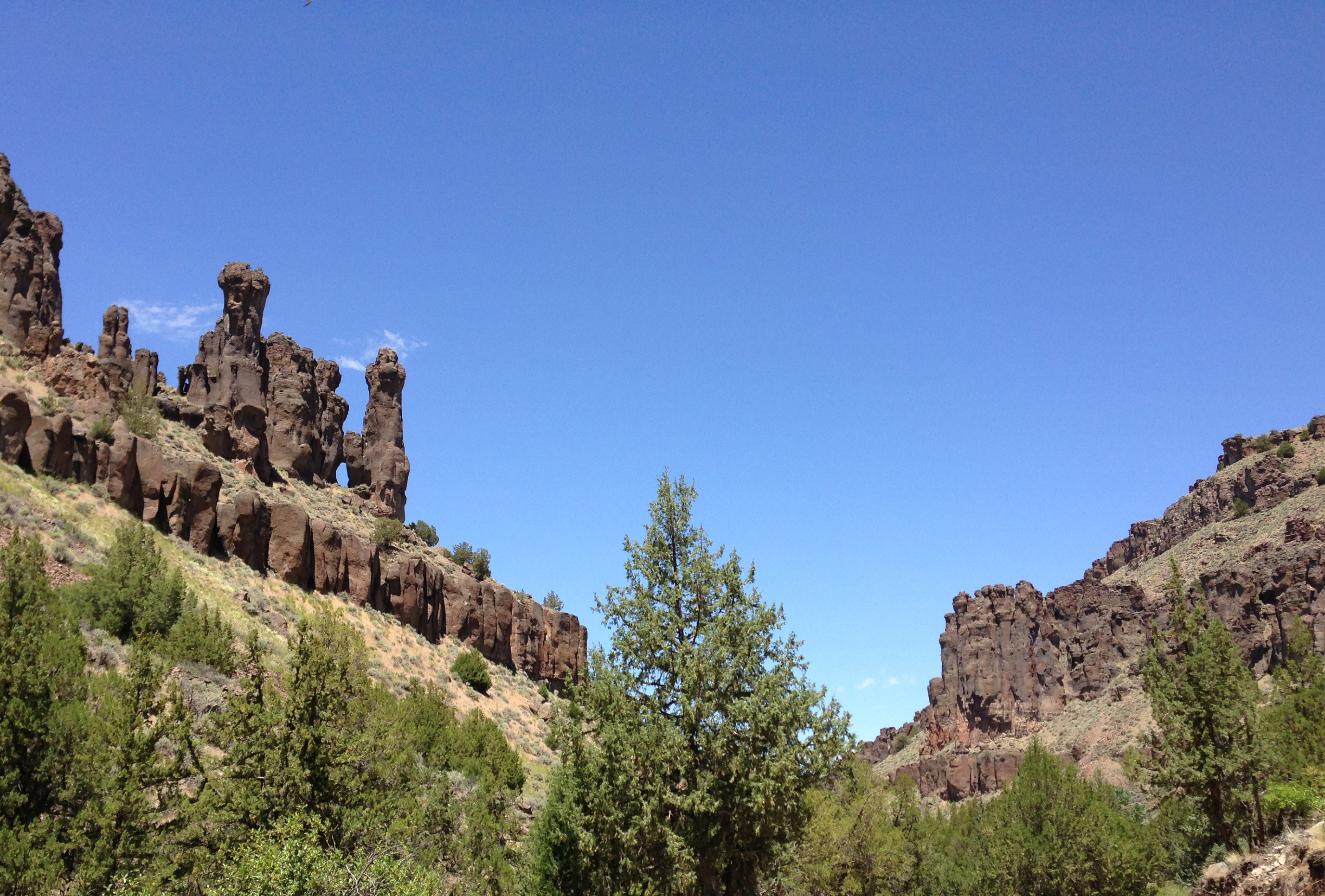 Hoodoos along Elko County Route 748 (Charleston-Jarbidge Road) in the Jarbidge River Canyon north of Jarbidge, Nevada